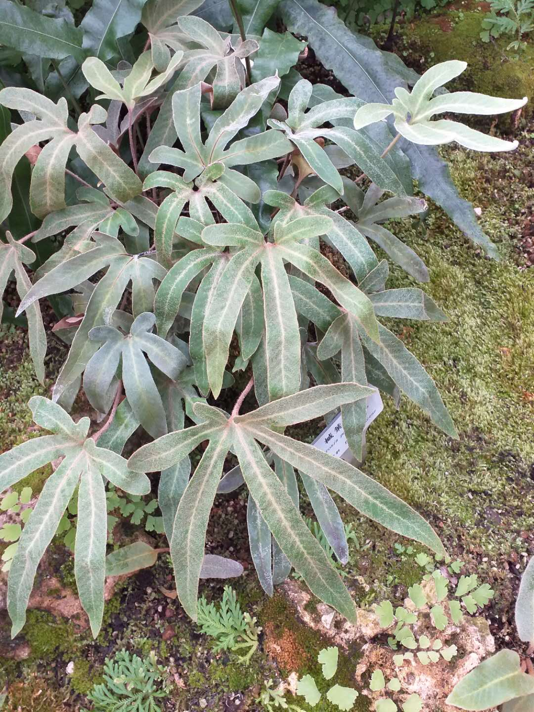 Pyrrosia polydactyla. Botanical Garden of National Museum of Natural Science, Taichung, Taiwan.